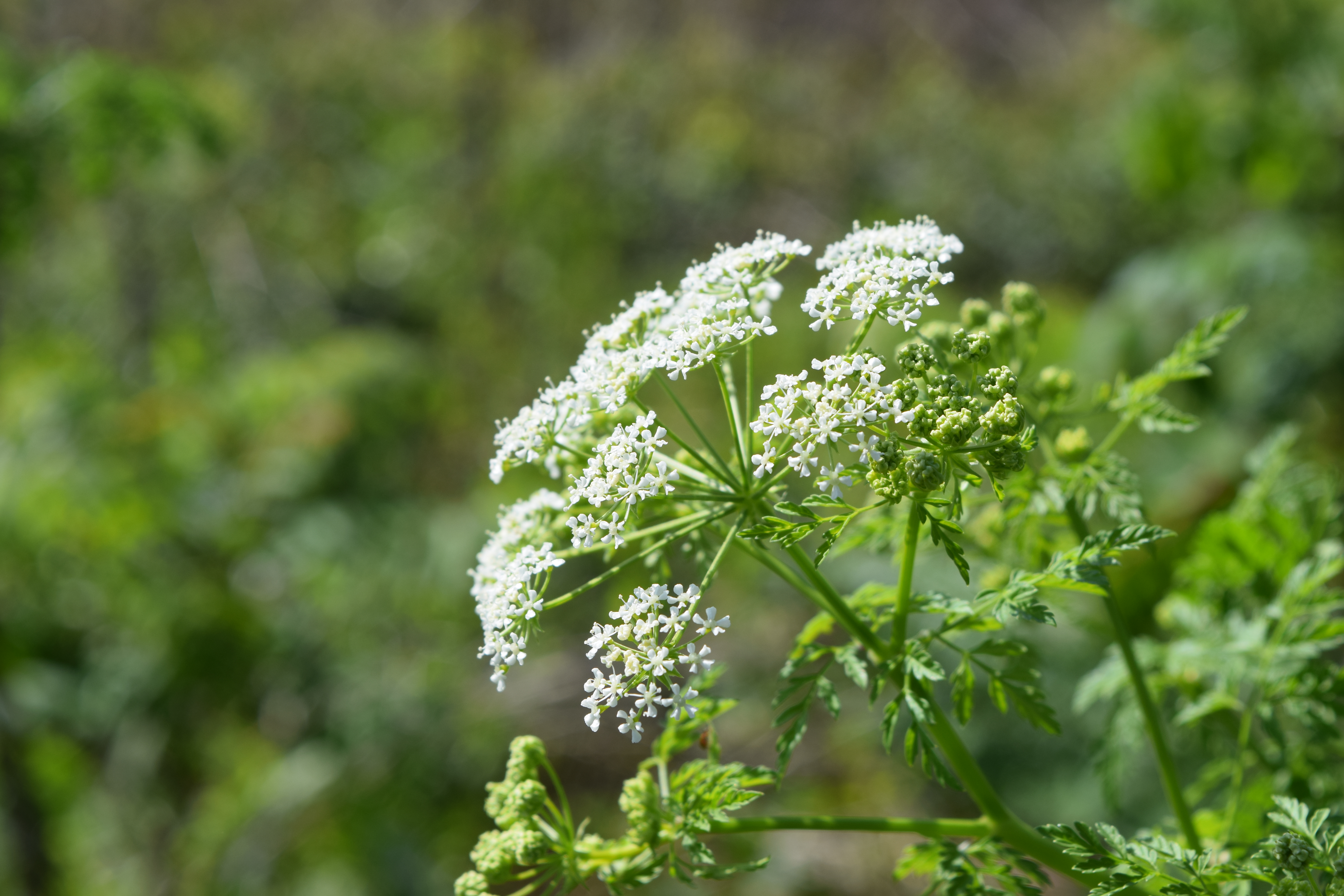 Flowering in spring, location: Fredericksburg, Virginia along the Rappahannock River.